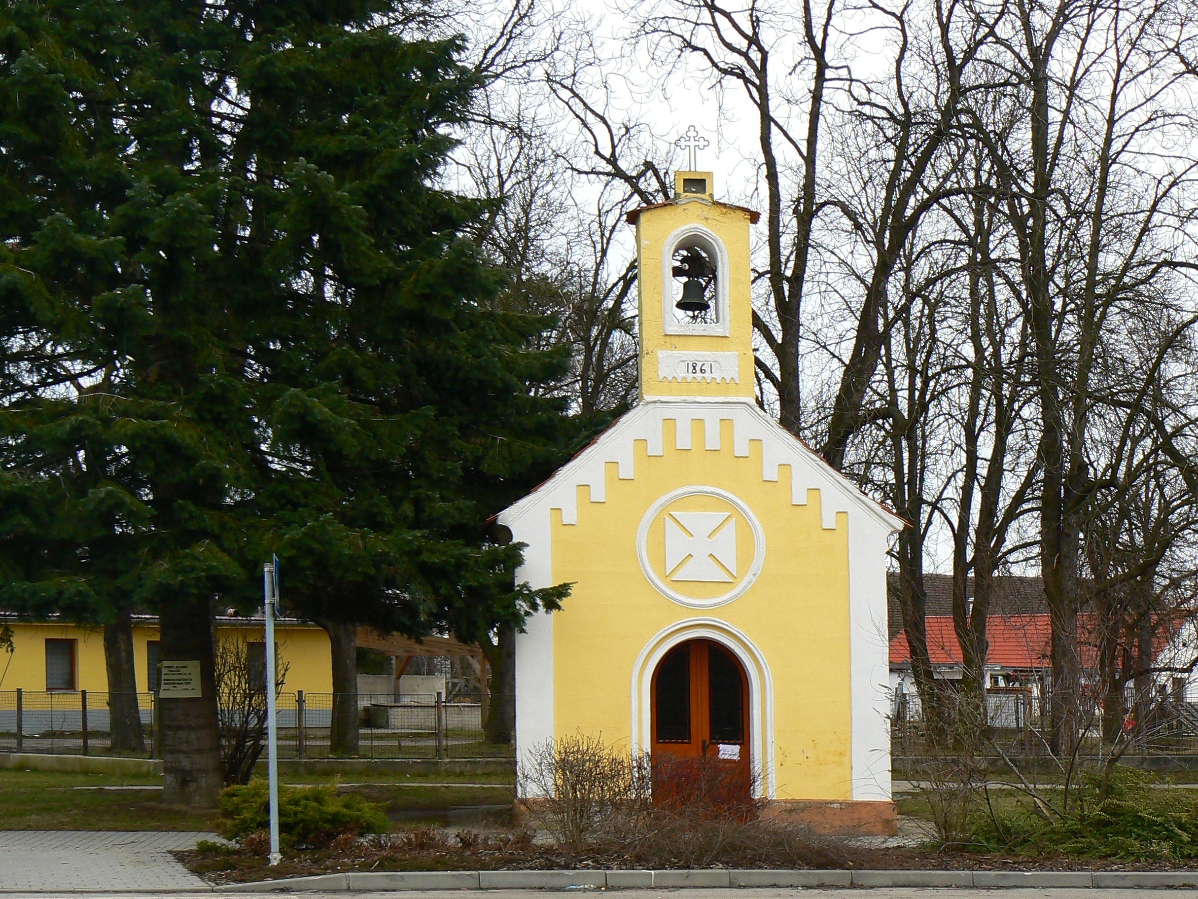 Chapel in Litvínovice, České Budějovice district, Czech Republic. Built in 1861.